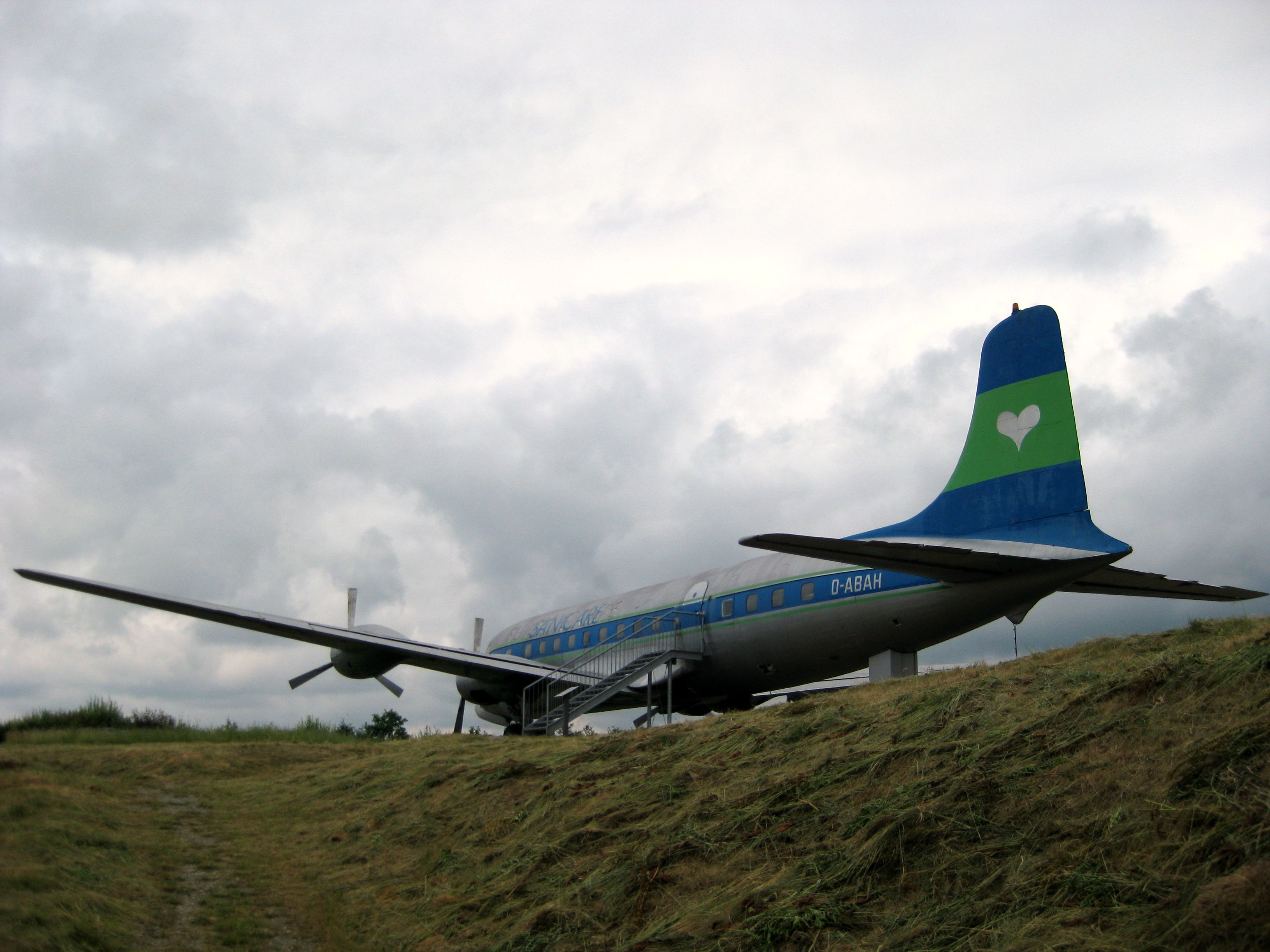 Douglas DC-6 in Bad Laer